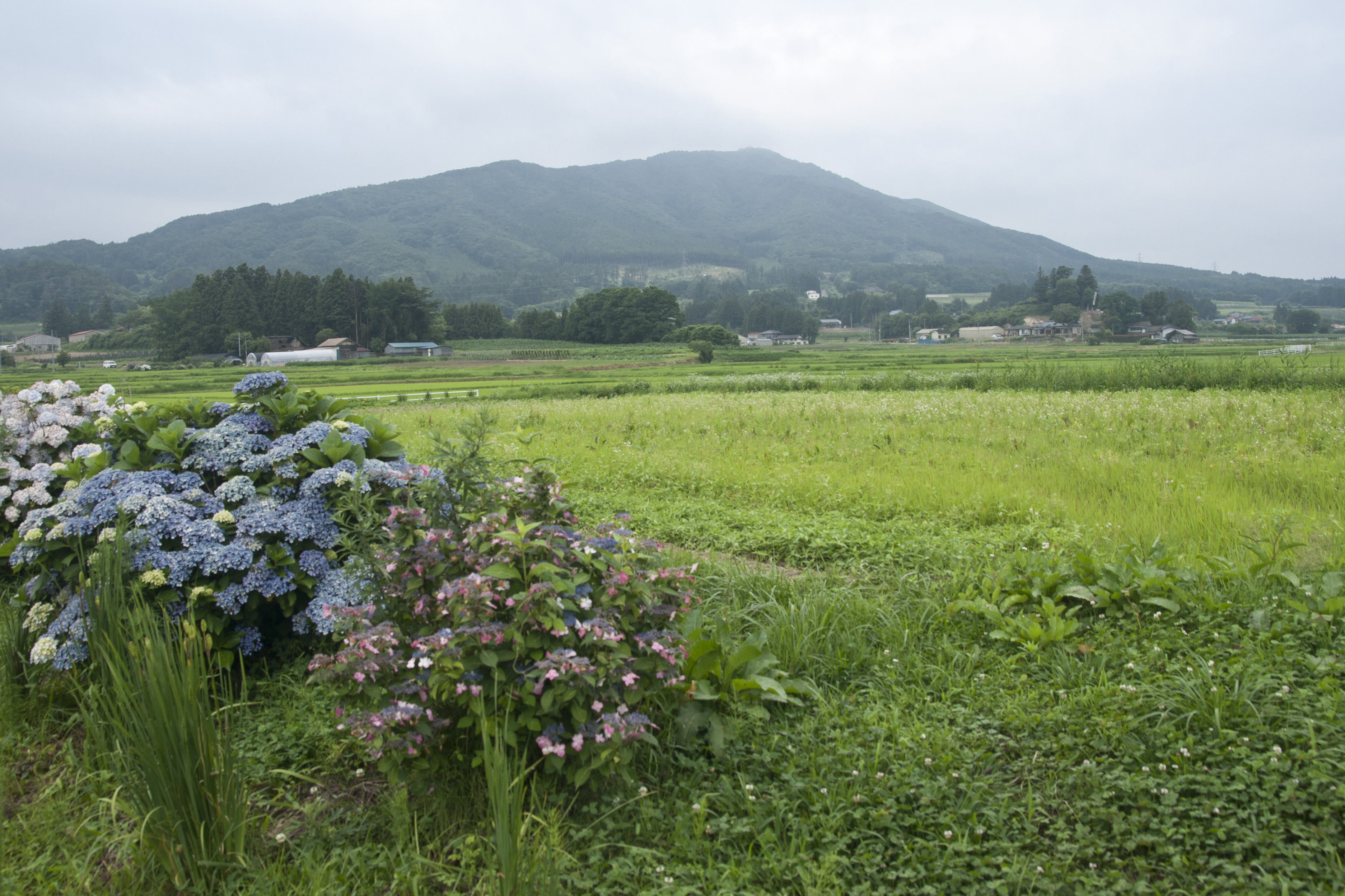 Mount Yomogidadake, Abukuma Mountains, Fukushima Pref., Japan.